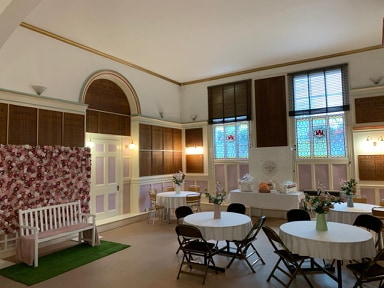 The Charter Hall is available for private hire.